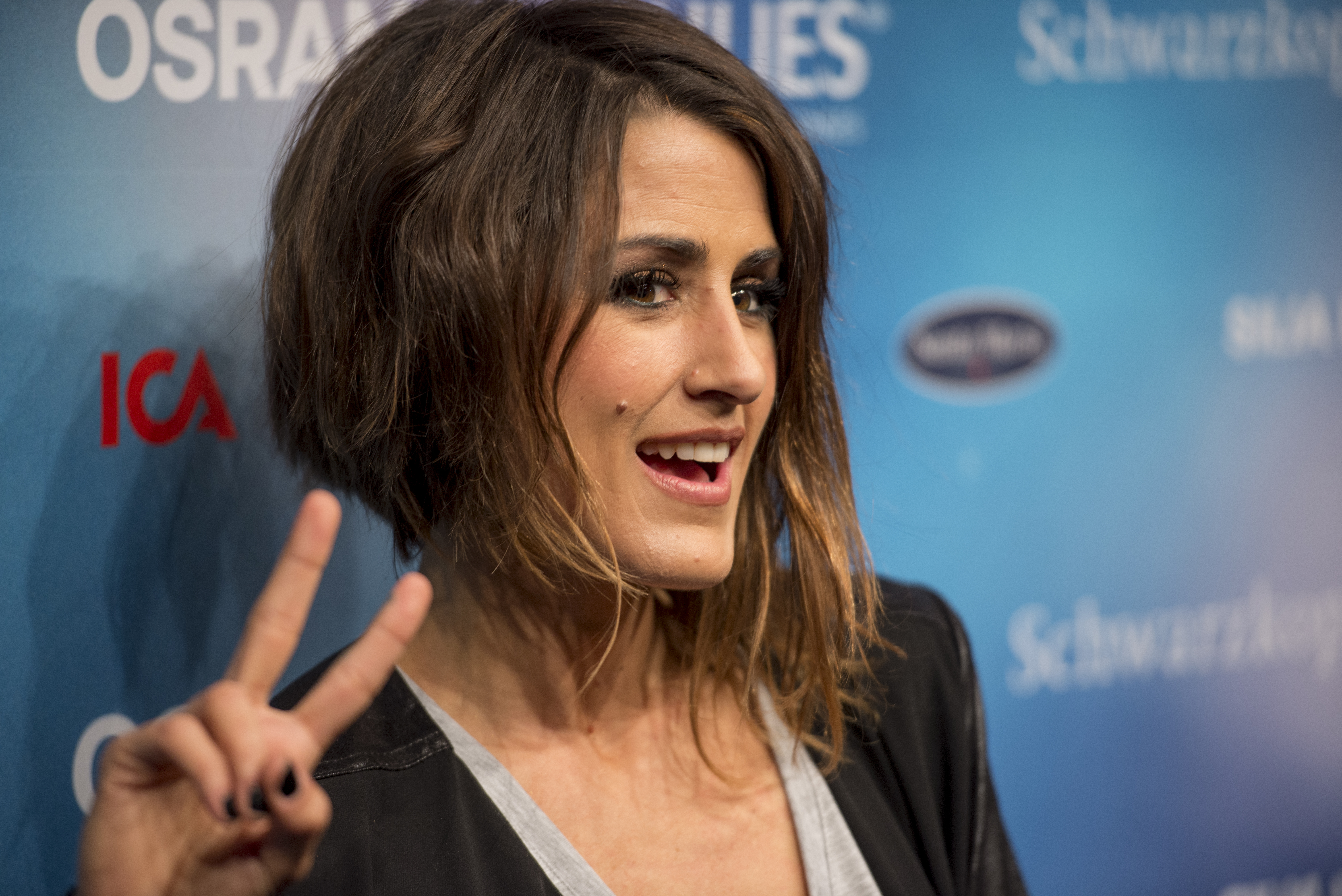 Barei at a Meet & Greet during the Eurovision Song Contest 2016 in Stockholm. (Help translate this text)